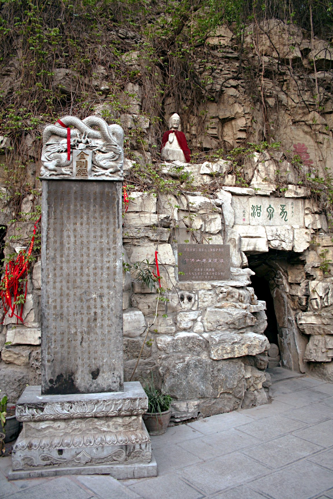 Cave in cliff behind the Xingguochan Temple on the Thousand Buddha Mountain, Jinan, Shandong Province, China.